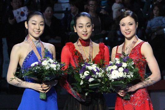 The ladies podium at the 2010 World Championships.From left: Kim Yu-Na(2nd), Mao Asada(1st), Laura Lepistö(3rd).